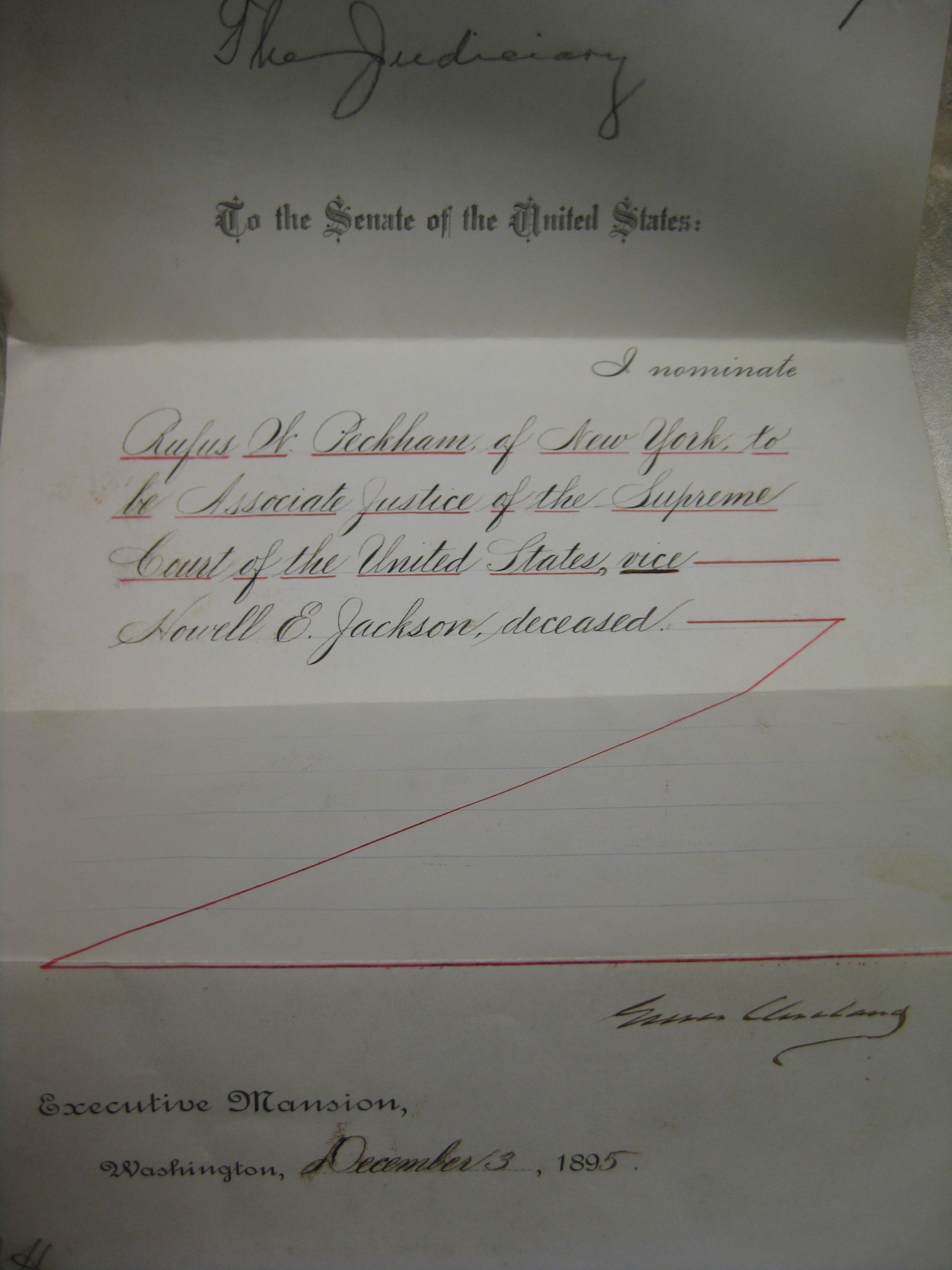 Grover Cleveland's nomination of Rufus Peckham to serve on the U.S. Supreme Court. Courtesy of the National Archives and Records Administration.